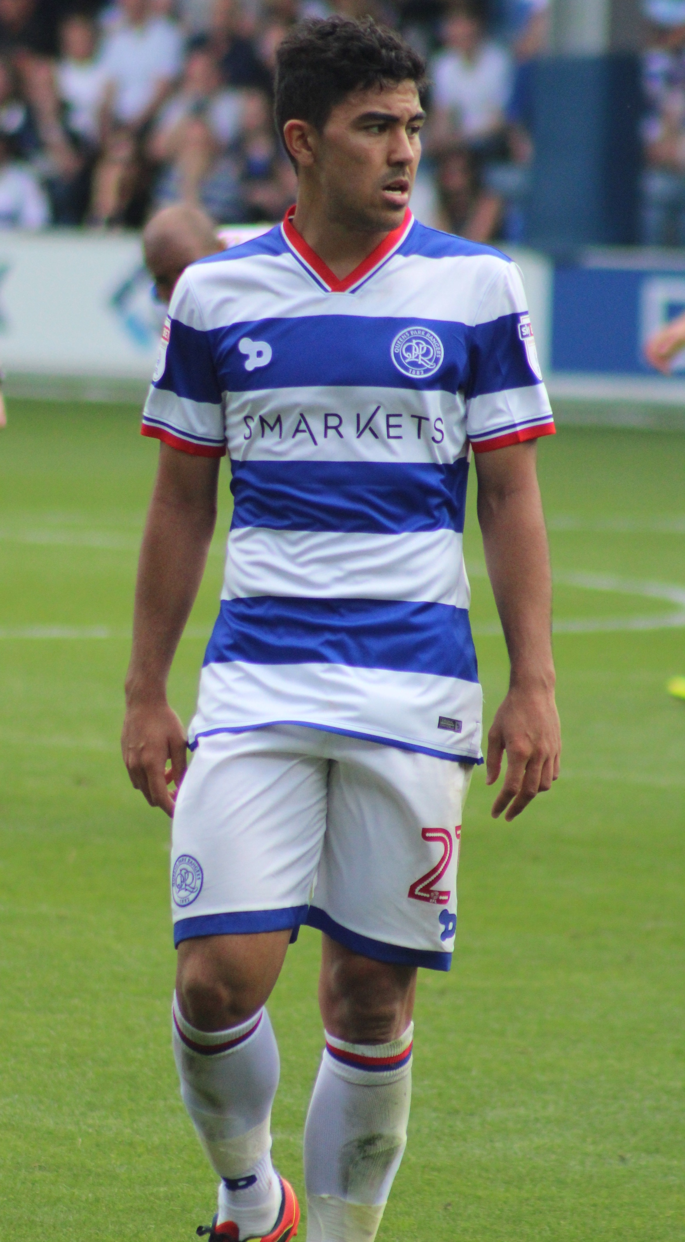 l